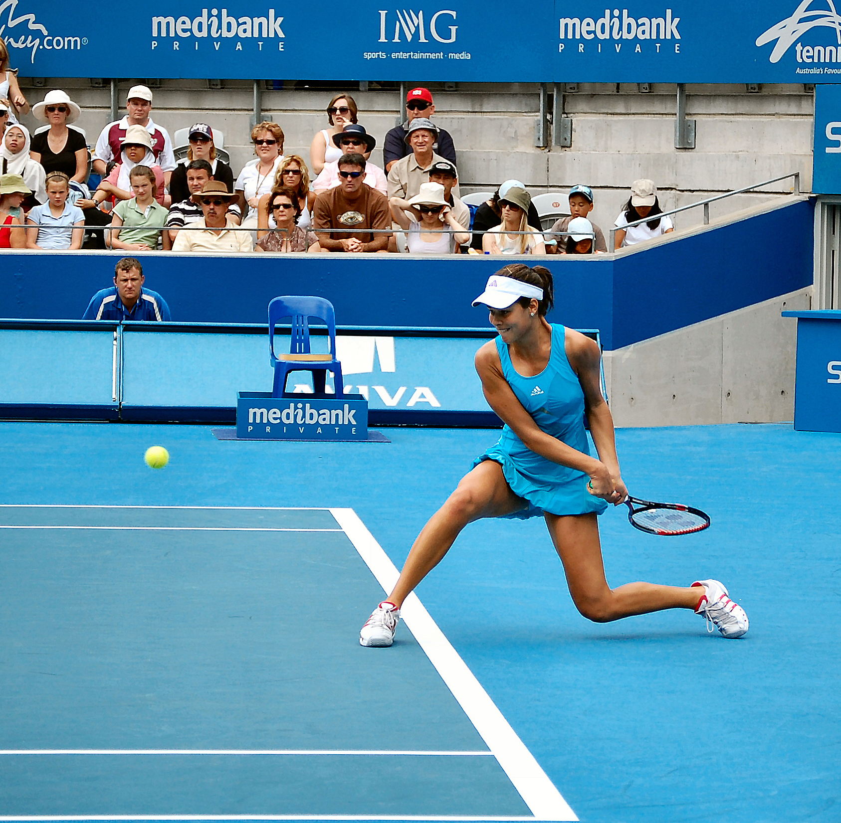 Ana Ivanovic playing her distinctive backhand. She gets down low and attacks the ball.